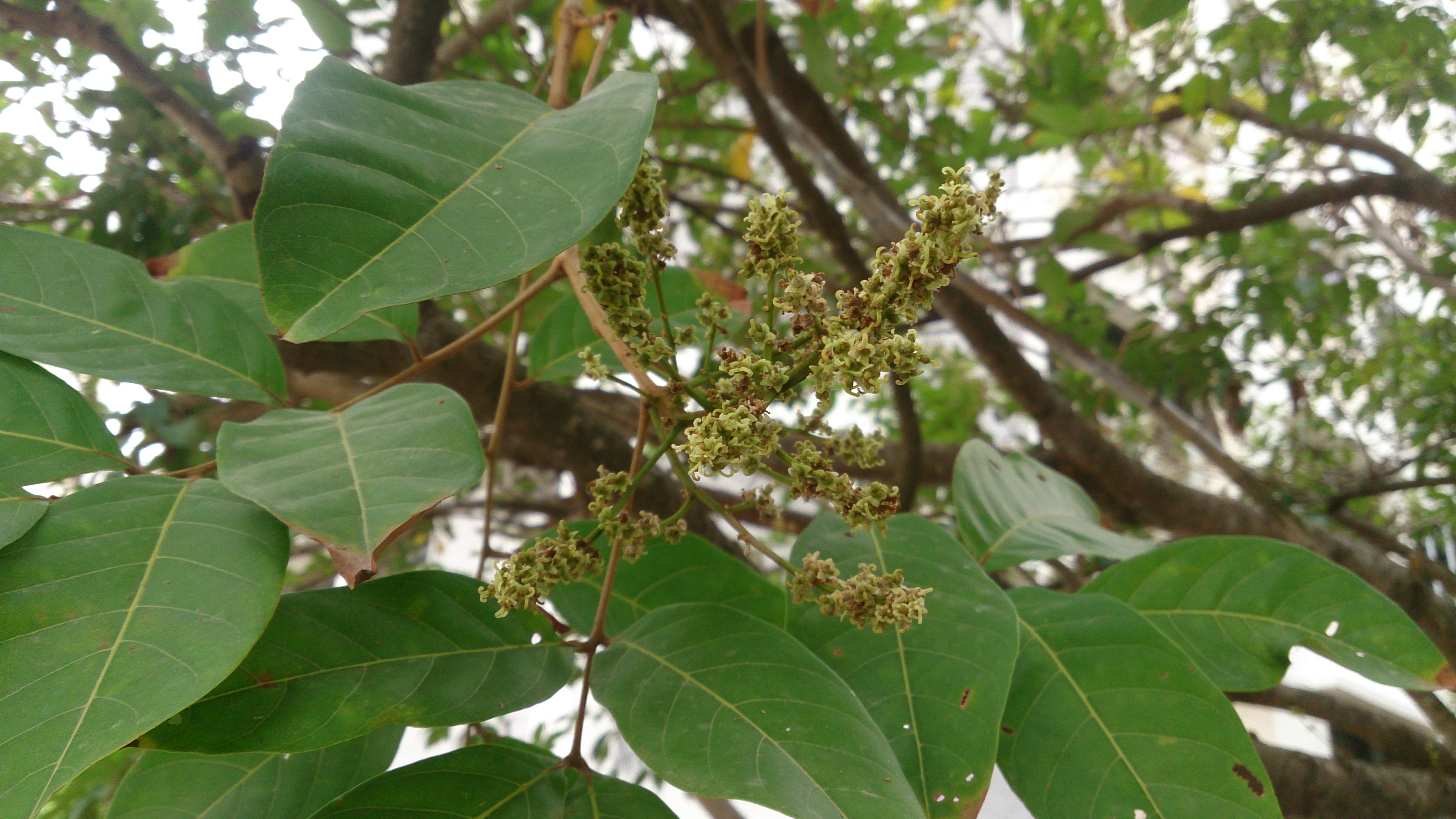 Nephelium lappaceum. Common name: Rambutan Tree.